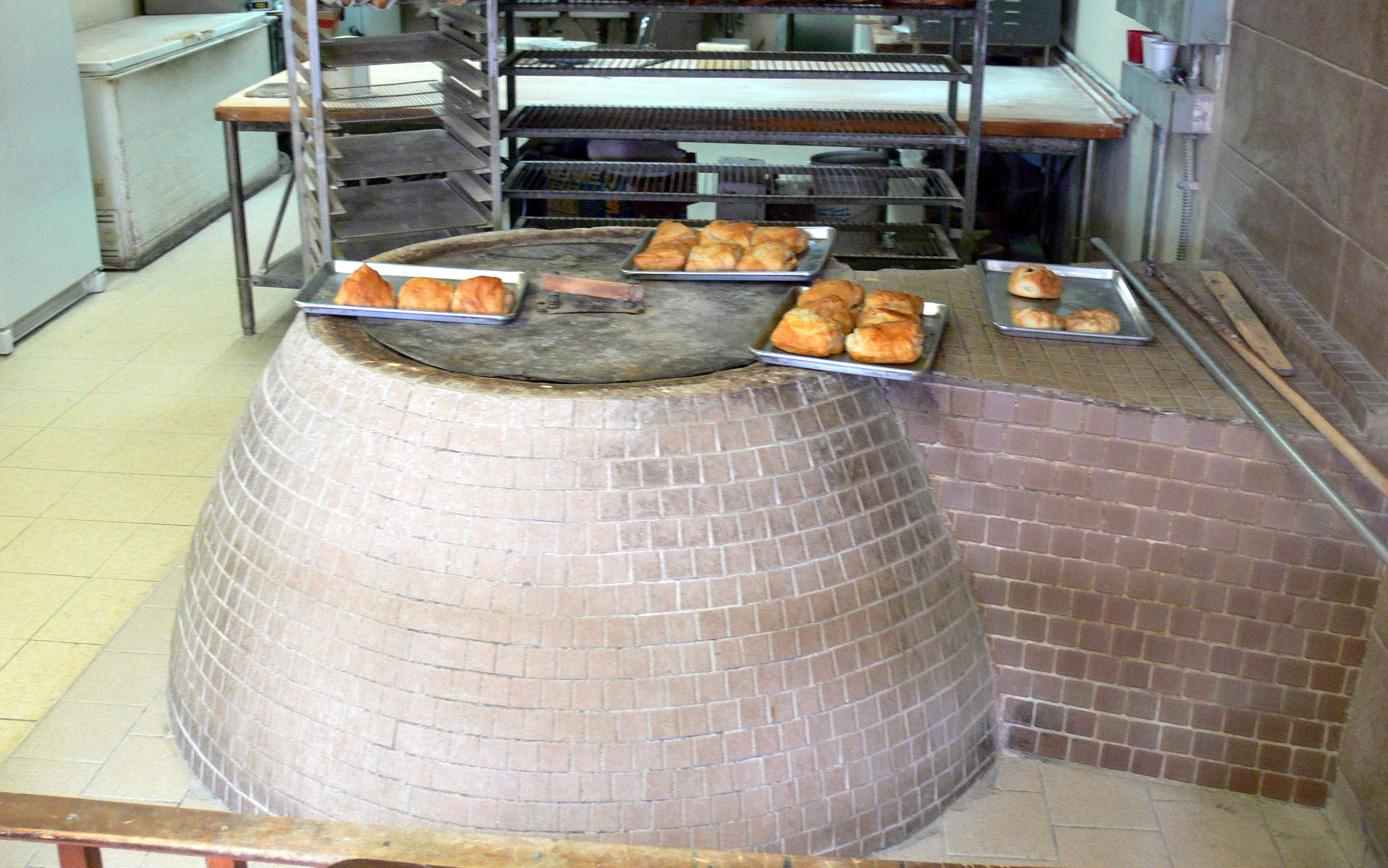 This oven goes about 10 feet into the floor. The breads are tacked onto the insides of the oven to bake, just like a tandoor oven. This is called .... well, I don't know... but it is a traditional Georgian oven, the only one like it in Chicago. To see this oven is reason enough to stop in the bakery, but the other reason are the delicious pasties they sell.